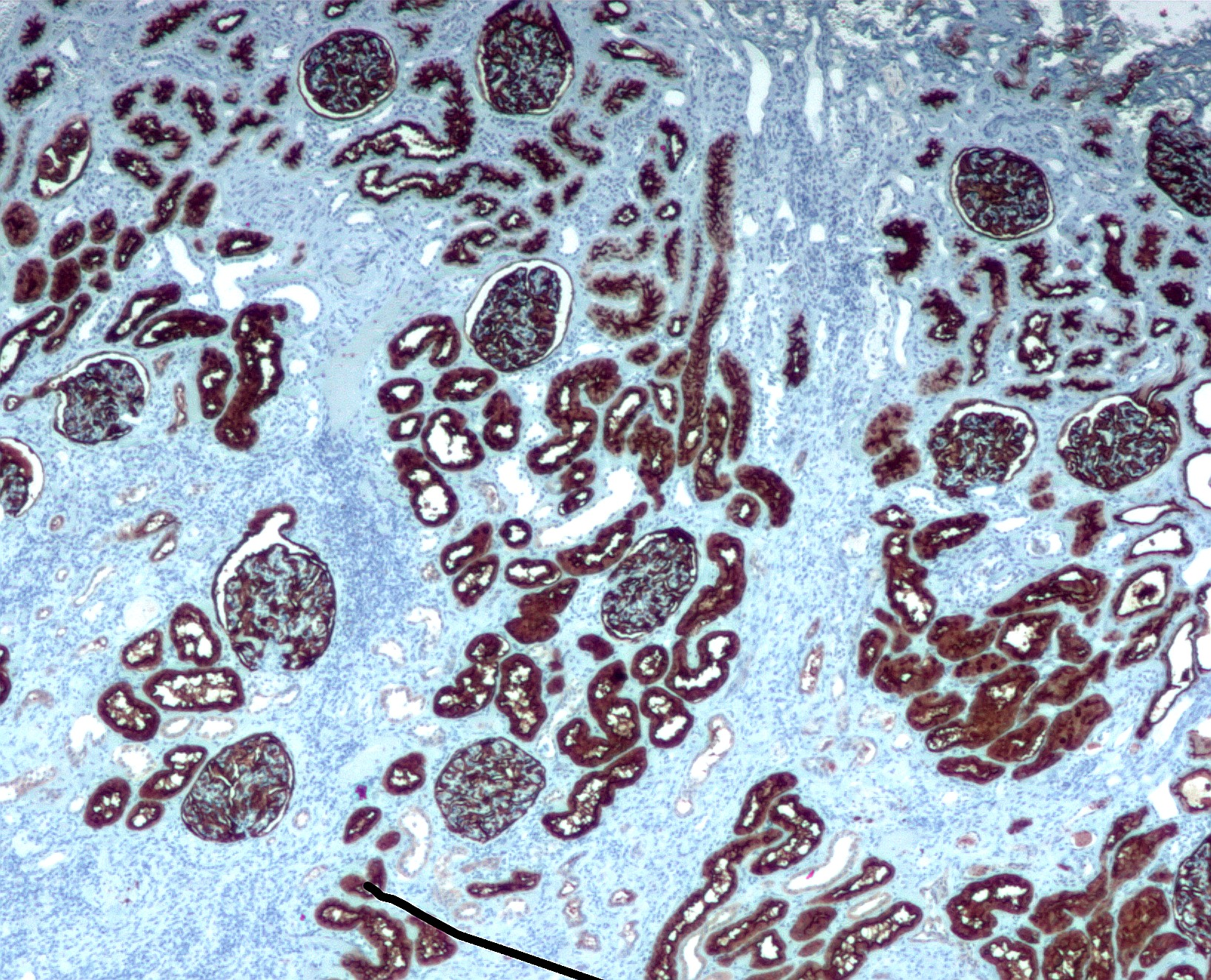 Immunohistochemical staining of a non-neoplastic kidney with CD10 (Nephrilysin). CD10 stains both the glomeruli and proximal convoluted tubule. CD10 is often used in a panel of immunohistochemical stains, when there is suspicion of renal cell carcinoma (which is thought to arise from the proximal convoluted tubule).